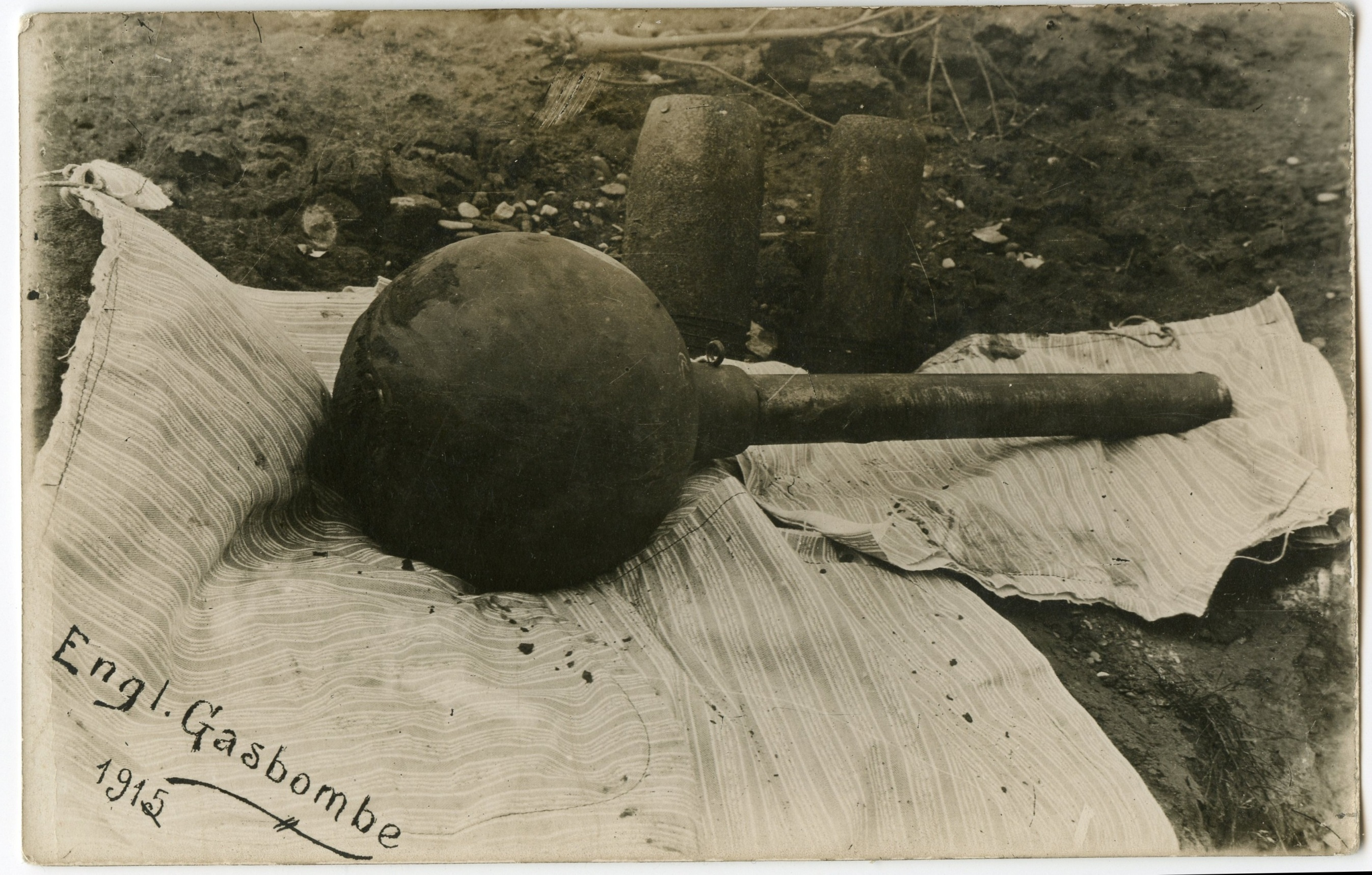 An English gas bomb from World War I.